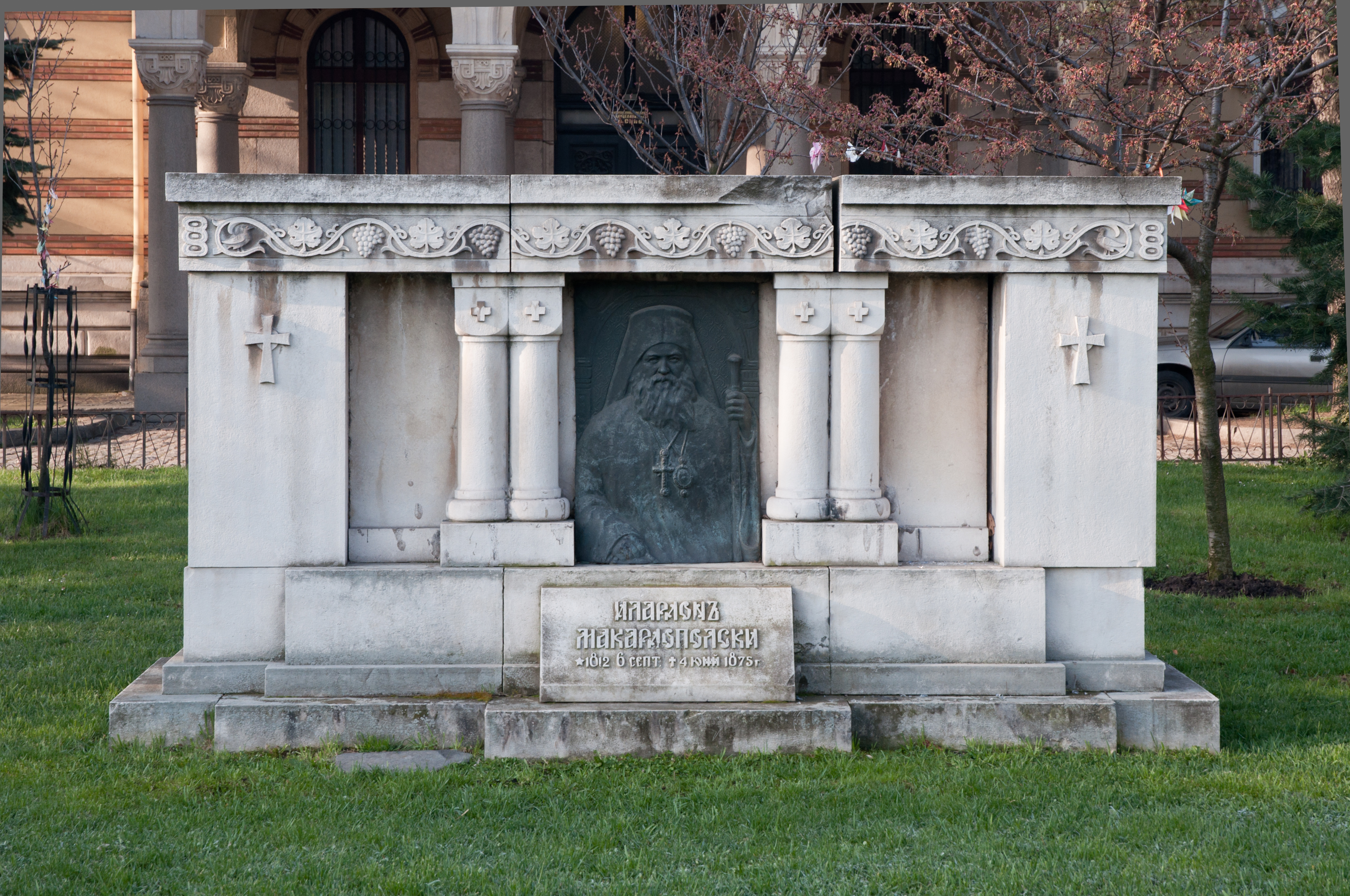 Memorial to Ilarion Makariopolski Metropolitan of Tarnovo in front of the Holy Synod building, Sofia. The bas-relief is by the Bulgarian sculptor Aleksandar Andreev.